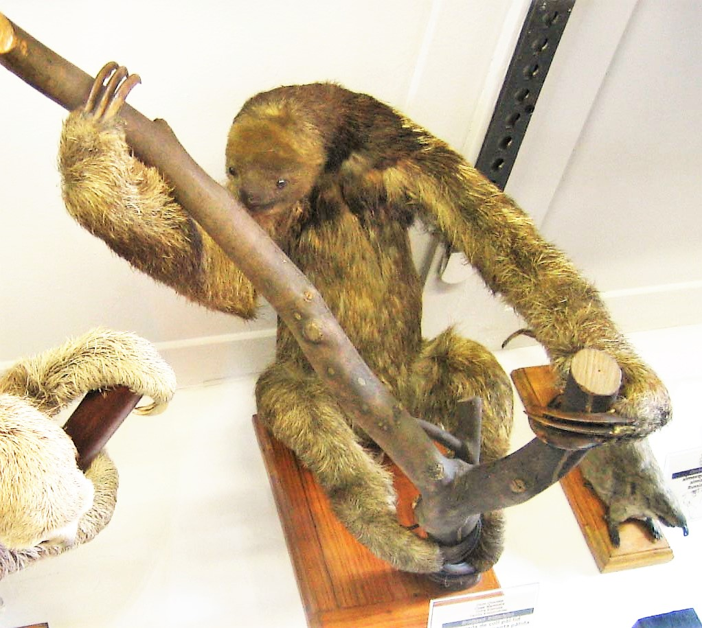 Bradypus torquatus of "Museu de Zoologia" of Barcelona